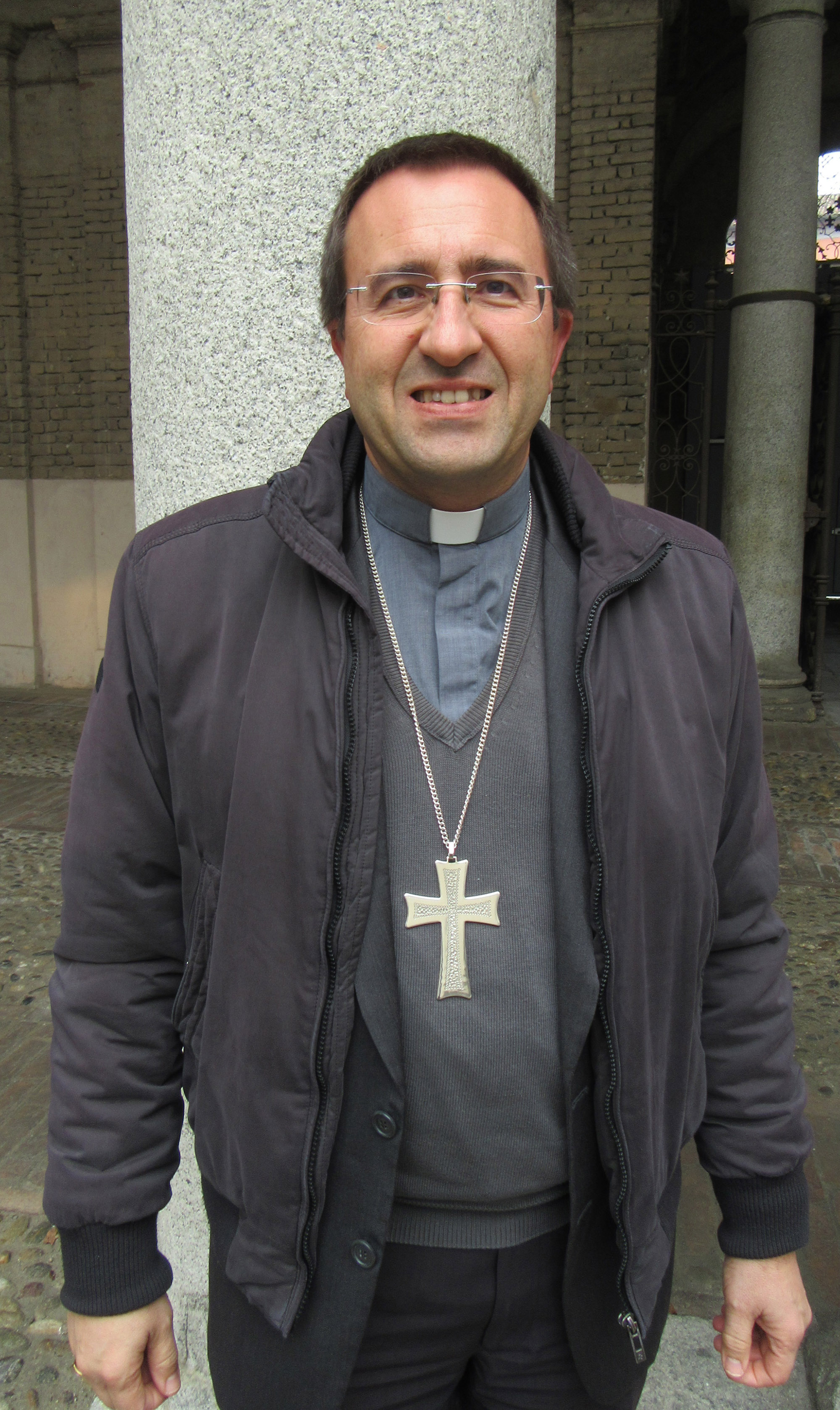 Italian Bishop Andrea Migliavacca